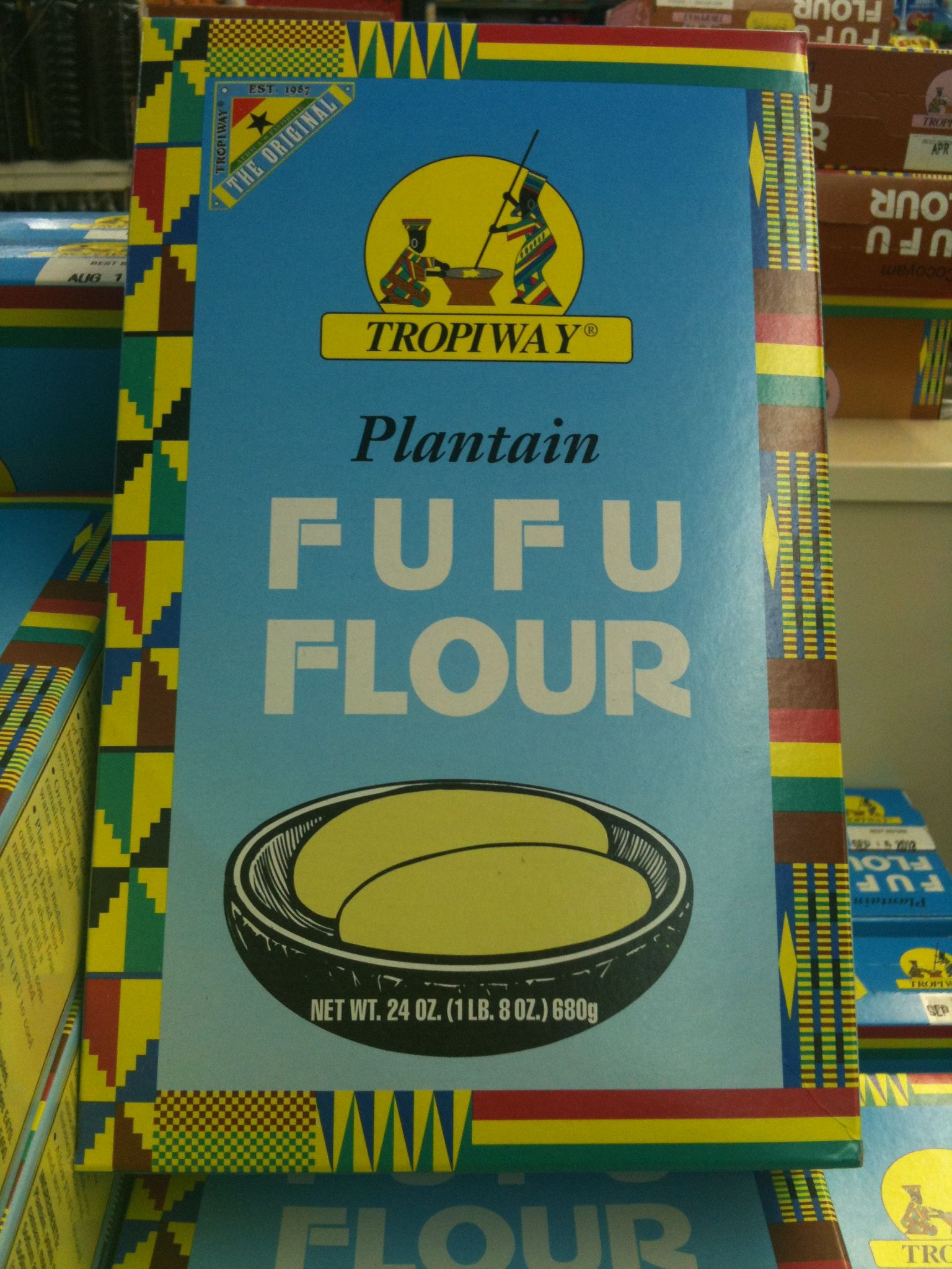 Fufu Flour is used to make a traditional African/Caribbean staple called 'Fufu', which is traditionally made by mashing unripe plantains or cassava or both roots into a paste, cooked and served with soup.